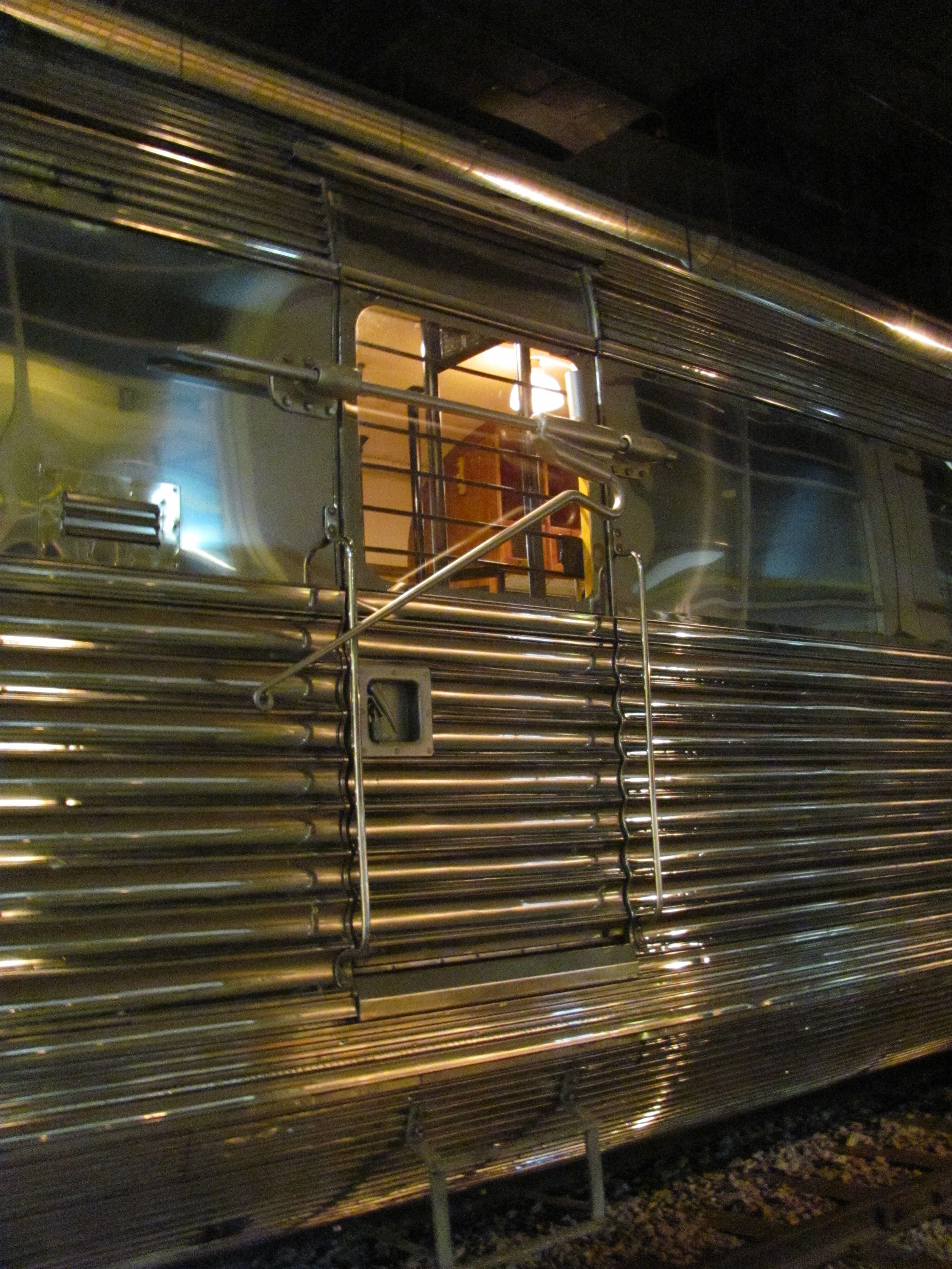 Burlington Zephyr in the Museum of Technic and Industry, Chicago